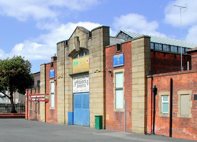 Wenlock Barracks, Hull Looking west from outside the Beetonsville Post Office at No.380 Anlaby Road. The Territorial Army barracks and drill hall opened on Saturday 8th April 1911, built on the site of a former detached residence called Somerset House. Wenlock Barracks is currently home to C Squadron (Volunteers) of the army's 3rd Medical Regiment. The city council's Newington & St Andrew's area action plan shows the barracks earmarked for acquisition and demolition between 2011 and 2014.